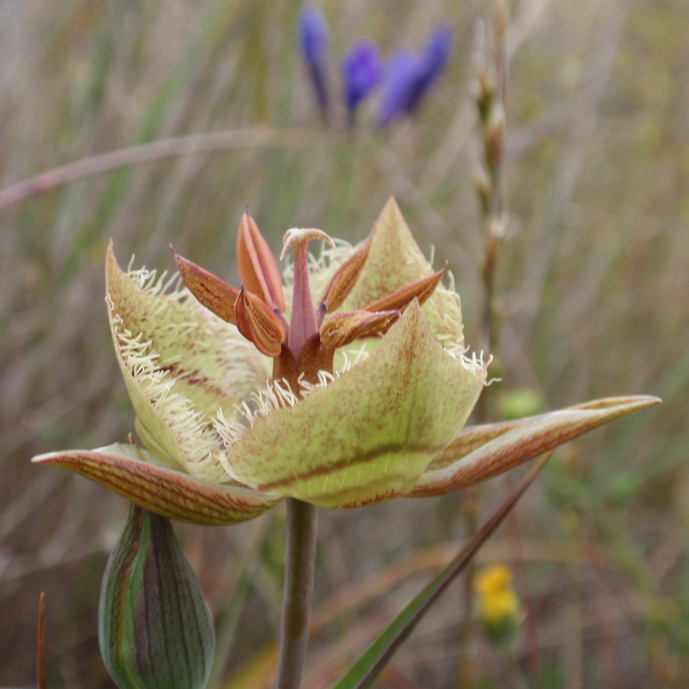 Calochortus tiburonensis, a rare and endangered species that grows only on Ring Mountain in Tiburon. More info here.